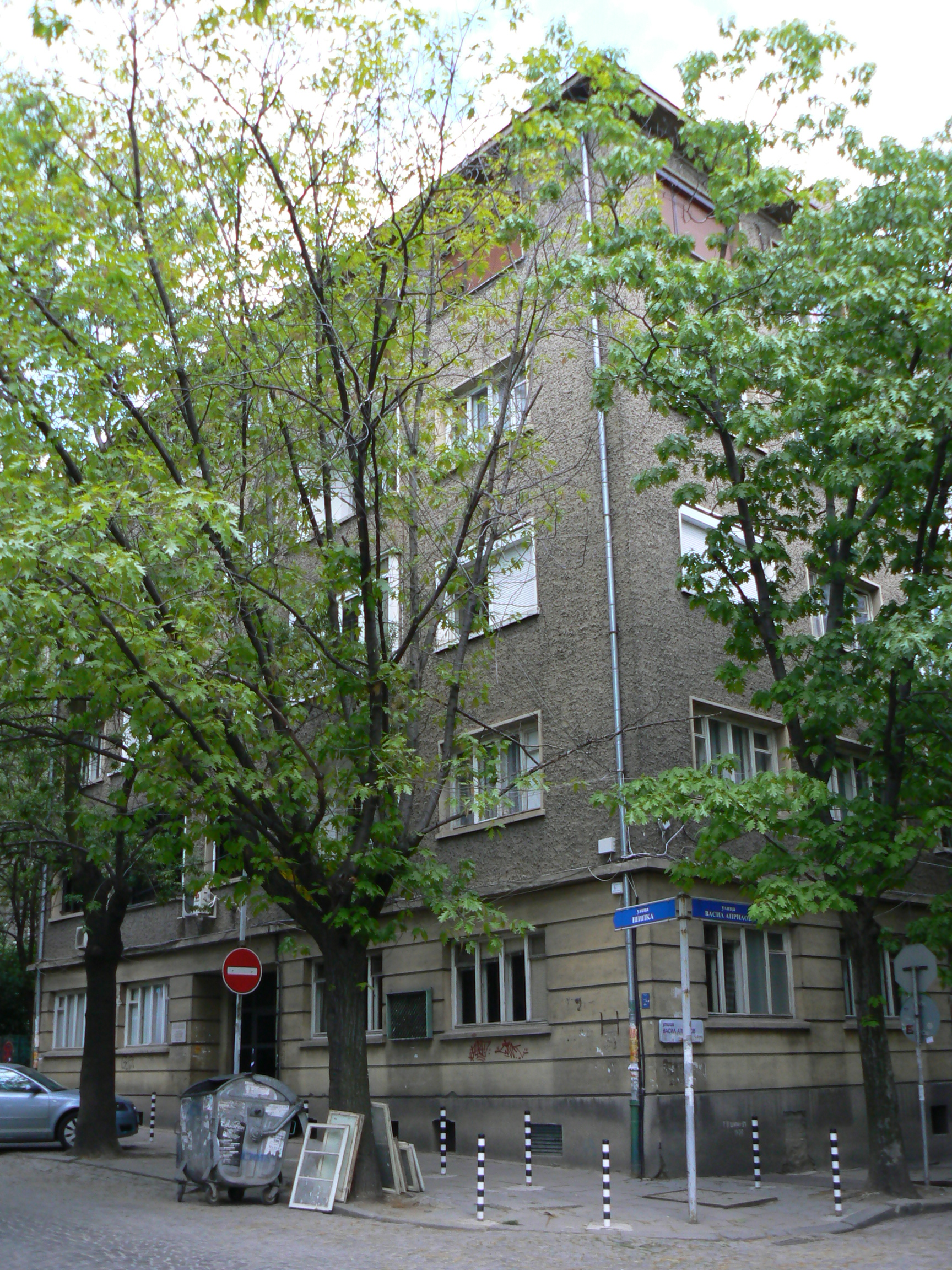 The home of the Bulgarian linguist Lyubomir Miletich on "Shipka" Street, Sofia, Bulgaria